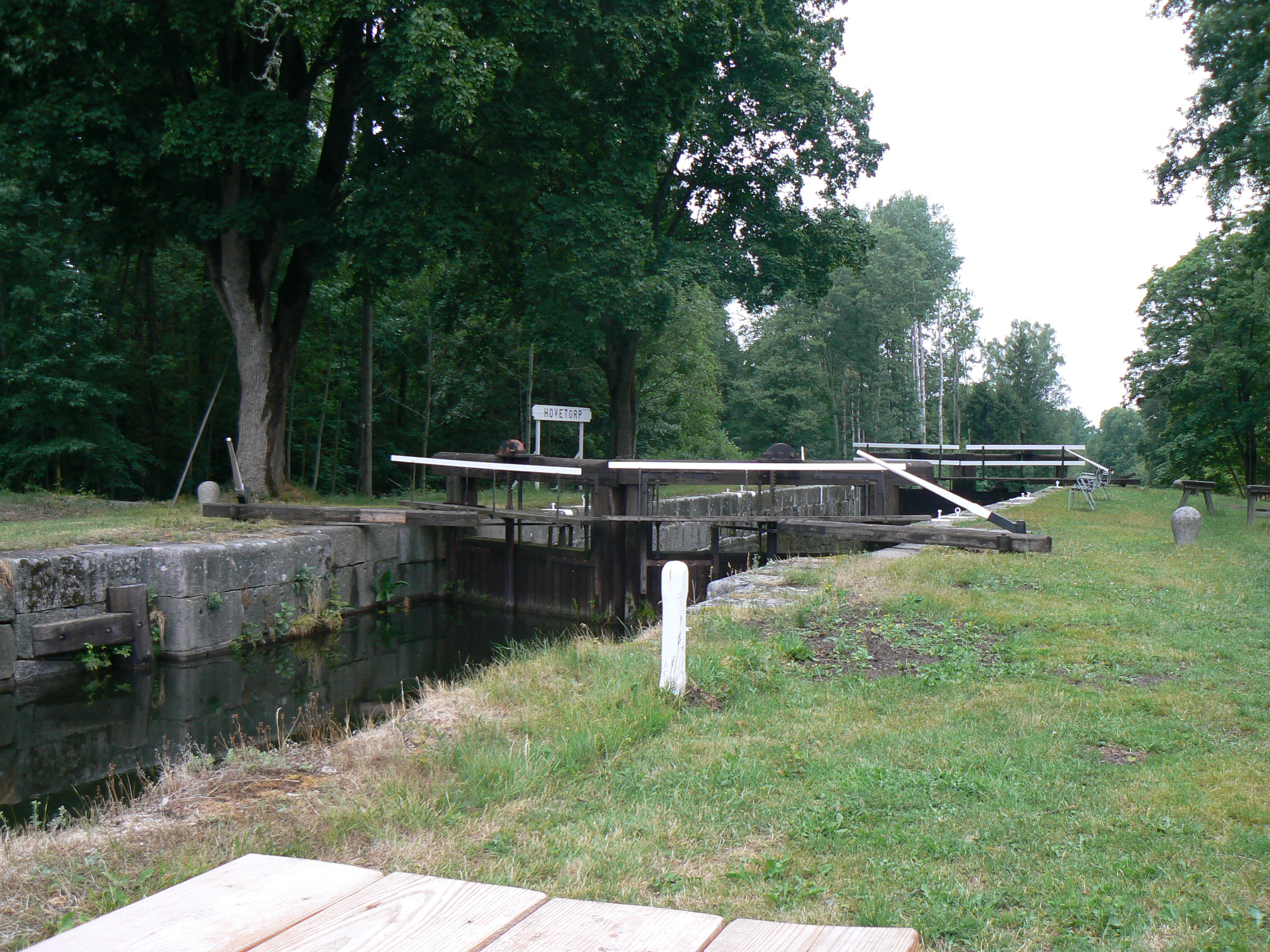 The Hovetorp locks on Kinda Canal, Sweden